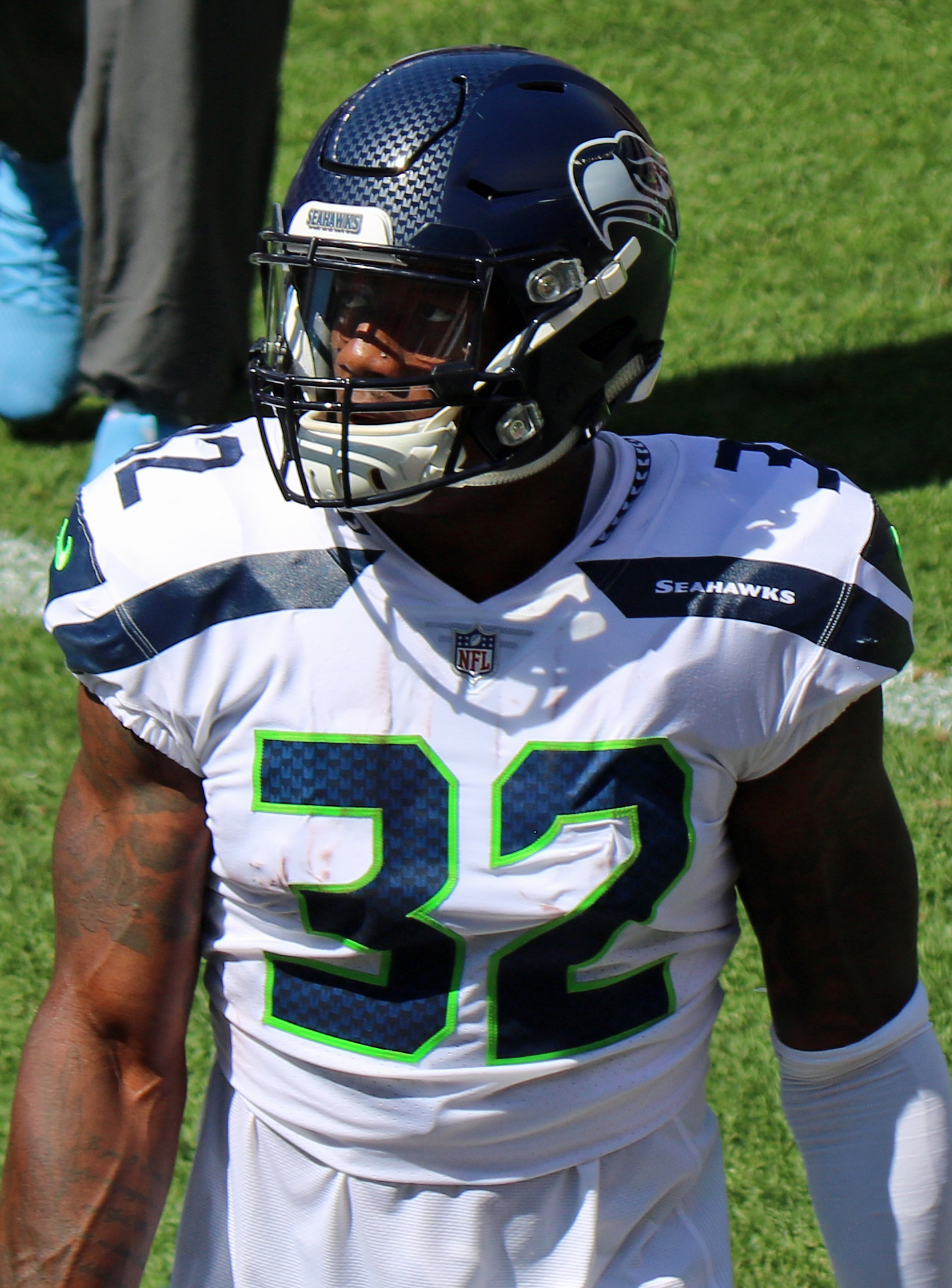 Chris Carson, a National Football League player.